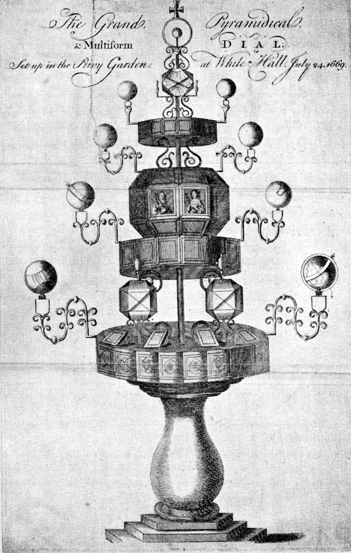 The King's Sundial, Whitehall Palace, London